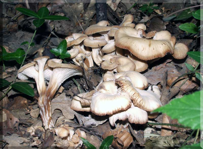 image of Lentinellus cochleatus taken in Basilicata, Italy